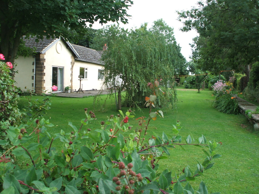 Newby Whiske railway station (site)Opened in 1852 by the Leeds Northern railway on its line from Harrogate to Northallerton, this station closed in 1939 to passengers but lasted until 1967 for goods traffic. View south west from the former level crossing towards Pickhill and Harrogate.